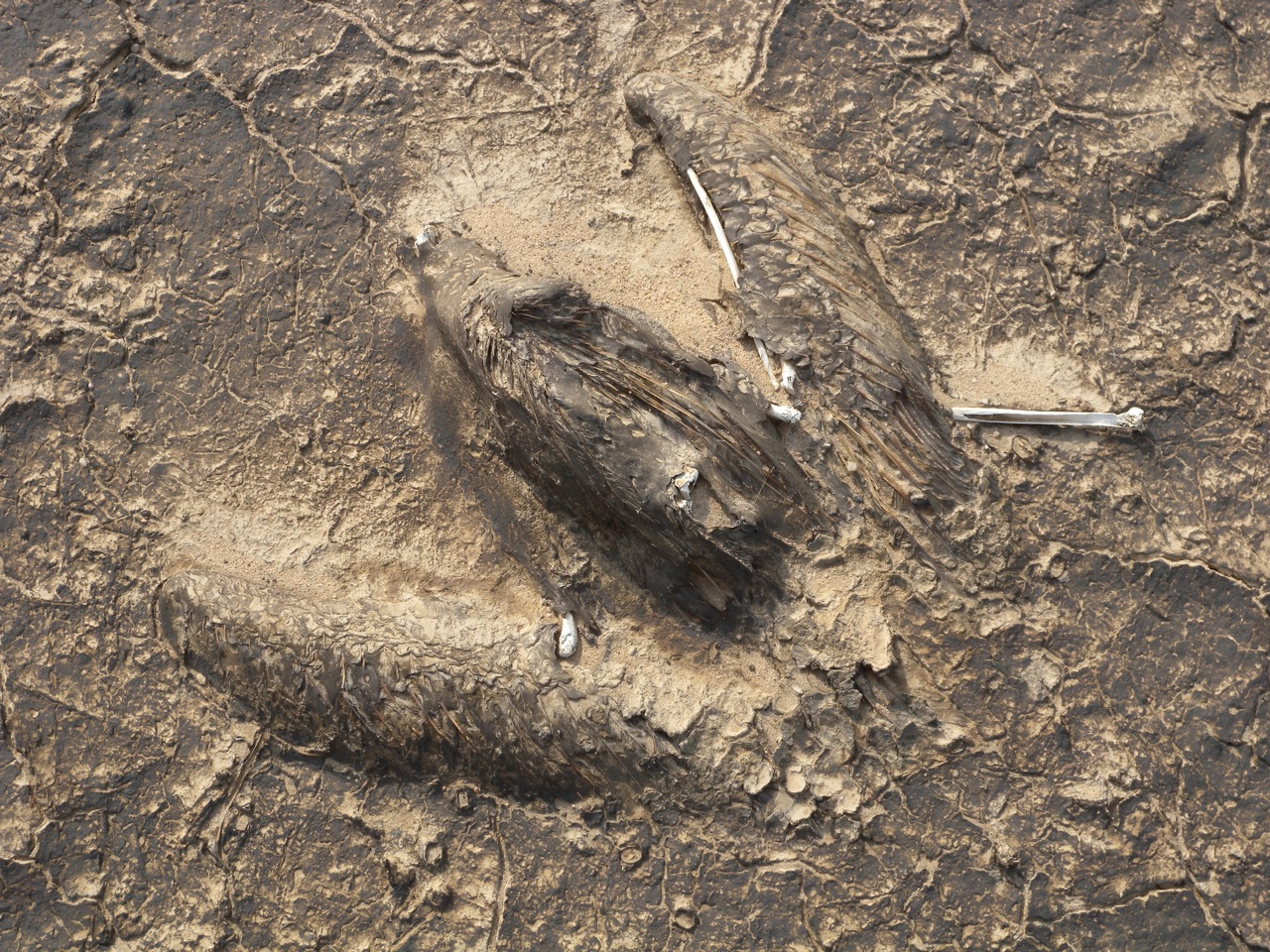 A 2008 picture of the mummified remains of a bird, encrusted within a hard layer of the dried up oil on what was an oil lake that was the result of the damage to the oil wells of Kuwait triggered by the retreating army of Iraq on the closing days of operation Desert Storm in 1991. Birds instinctively landed on the fluid oil lakes which to them appeared as puddles of collected water.